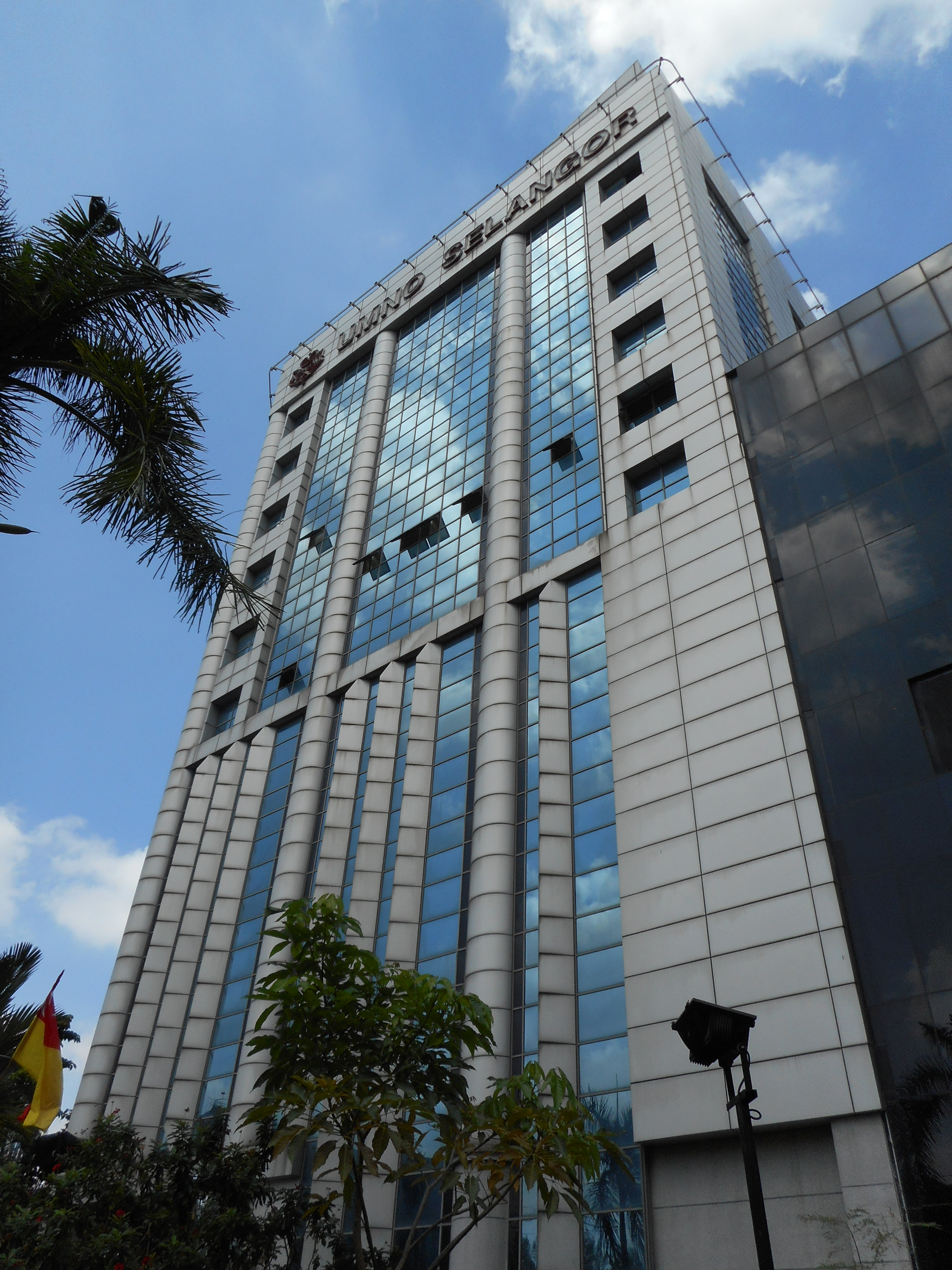 UMNO Selangor, Shah Alam, Petaling, Selangor, Malaysia